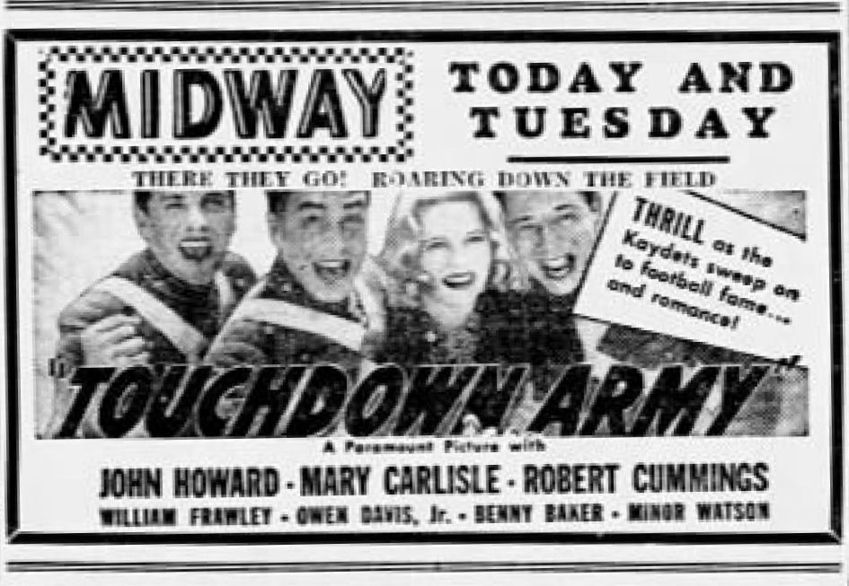 Midway Theater advertisement for the American film Touchdown, Army (1938) - 28 Nov. 1938 Morning Call, Allentown PA